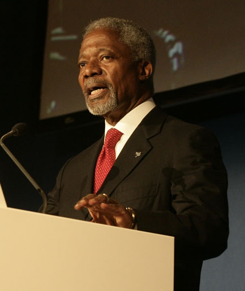 Cropped version: File:Kofi Annan, Neuorientierung 1995.jpg